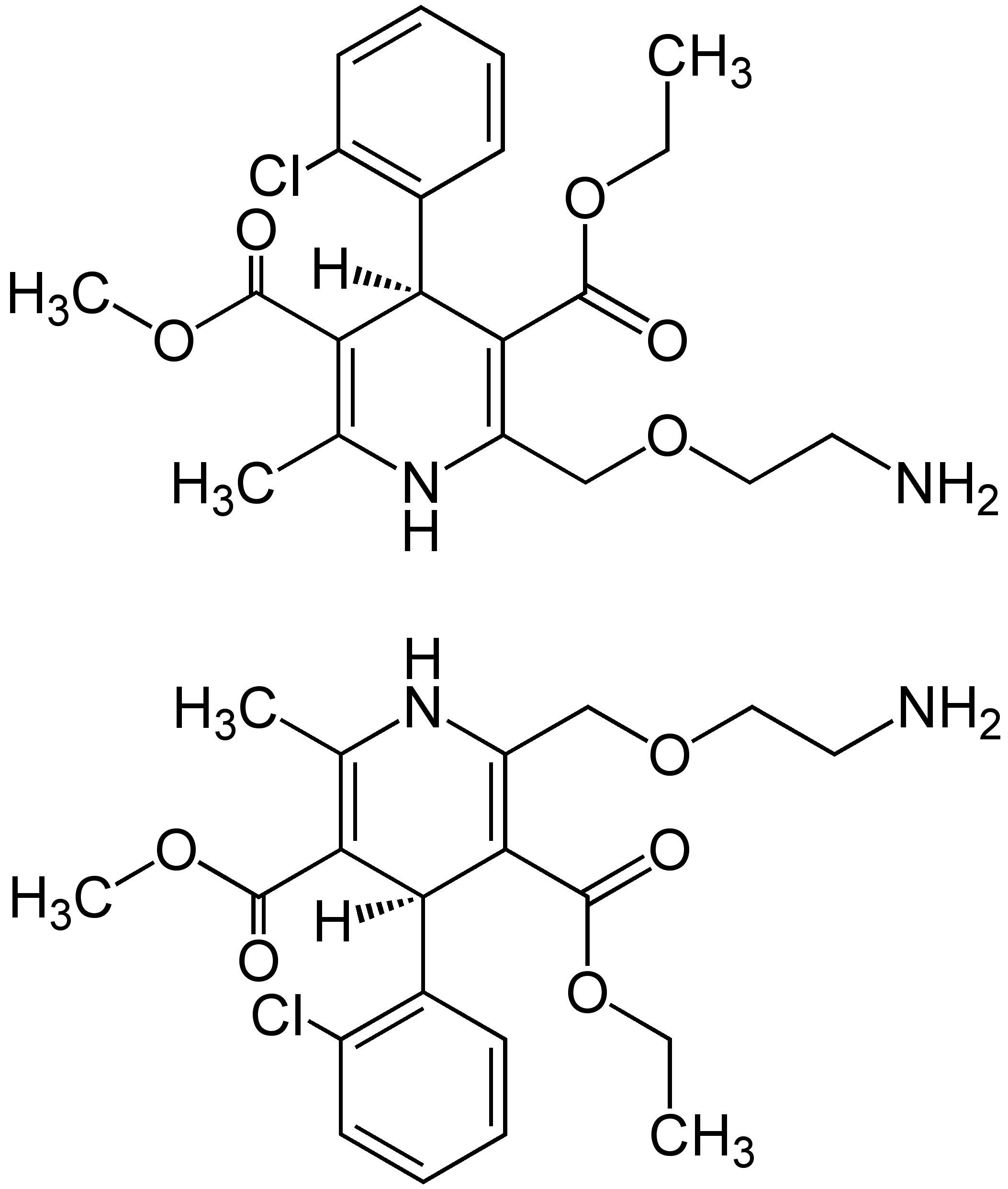 (±)-Amlodipine_Enantiomers_Structural_Formulae